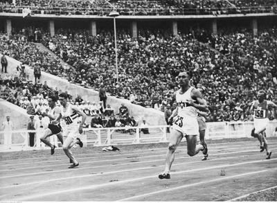 The final meters of the second round competition in Berlin 400 meter